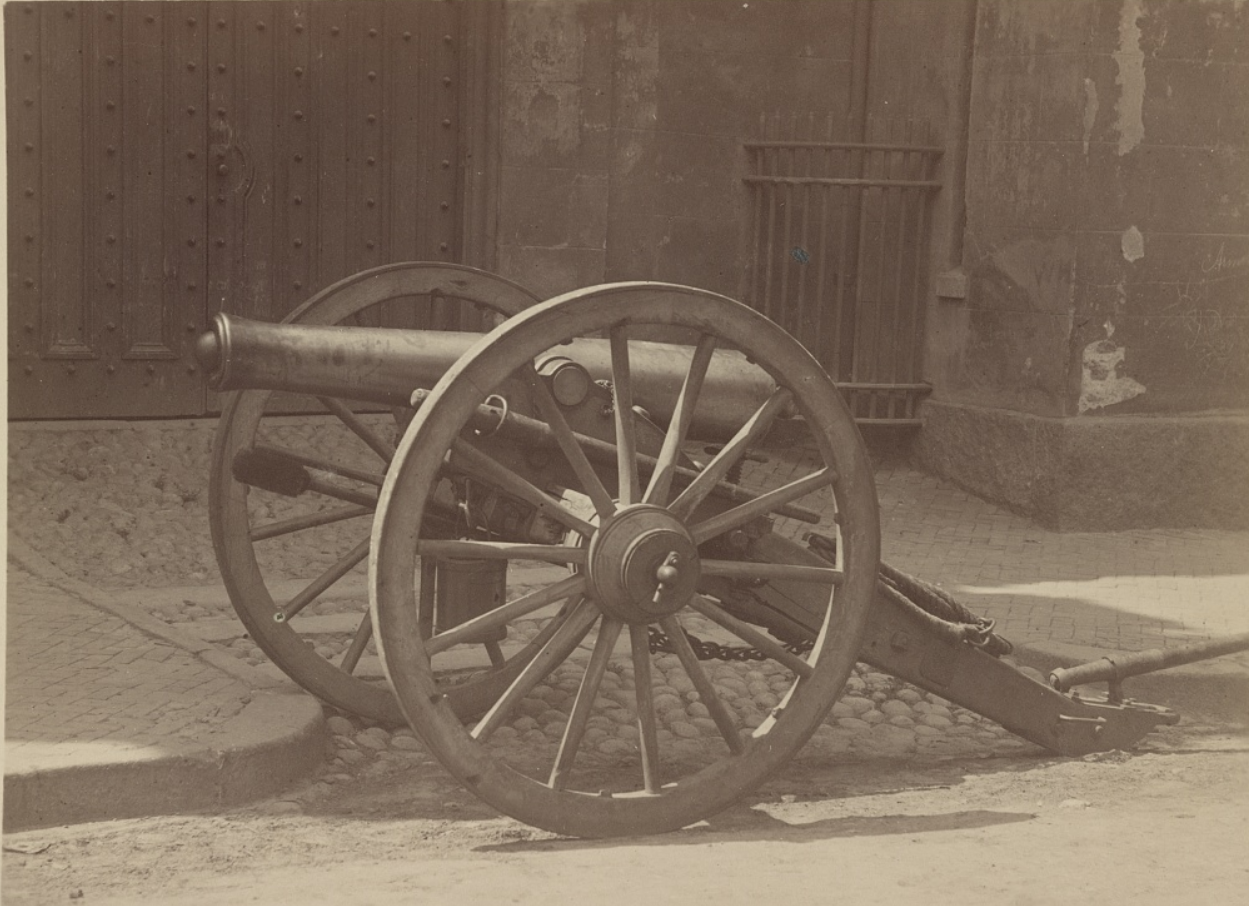 The Gettysburg Gun, last fired during the eponymous 1863 Civil War battle, sits in the foyer of the Rhode Island Statehouse. At Gettysburg, this gun was a part of the 1st Regiment Rhode Island Light Artillery Battery B. On July 2 and 3, 1863, ‘The Gettysburg Gun’ was one of the six guns firing on the Confederate positions before ‘Pickett’s Charge’ began.